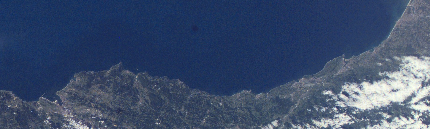 Coasts of the Basque Country